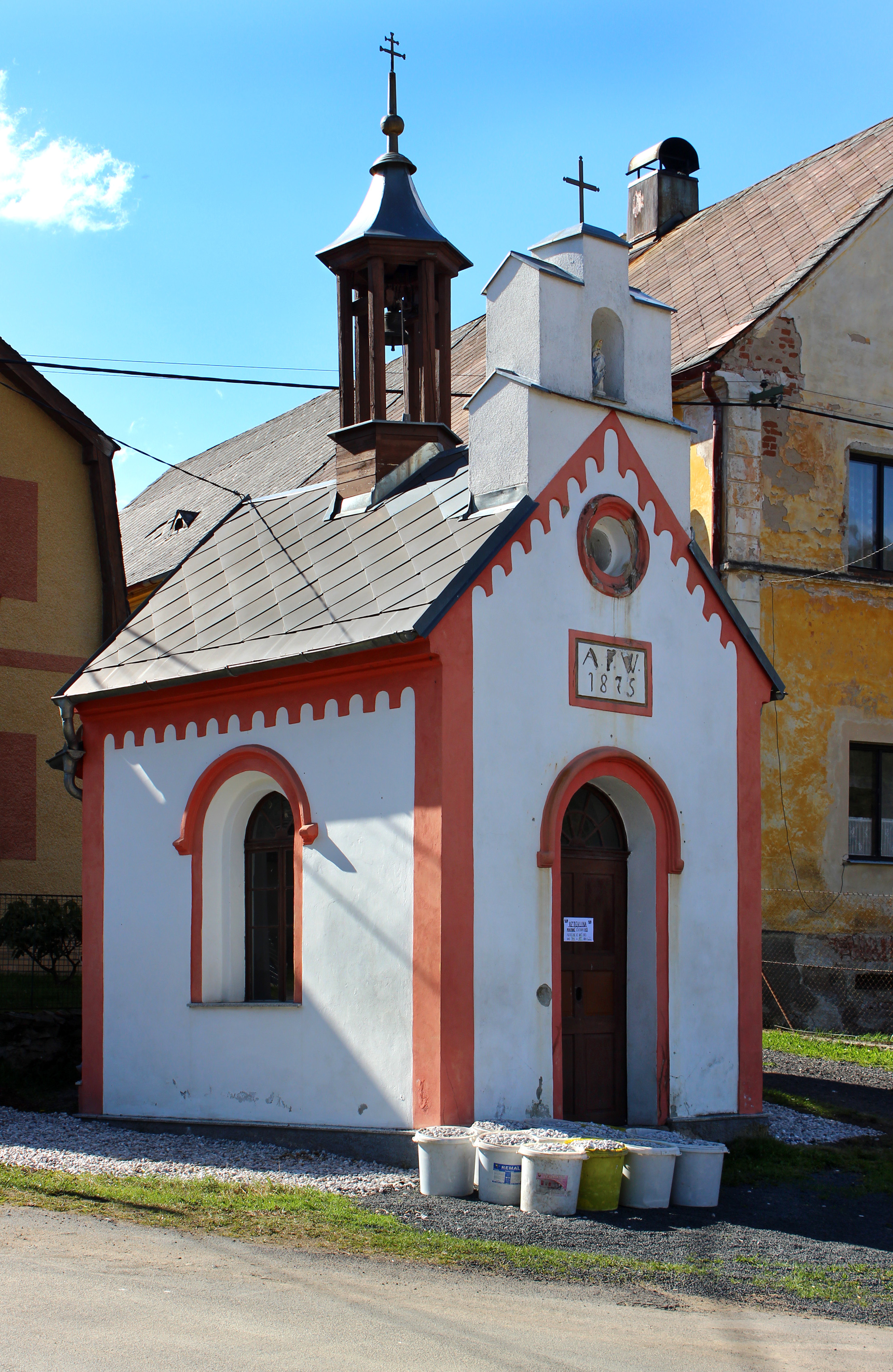 Small chapel in Teplička village, Czech Republic